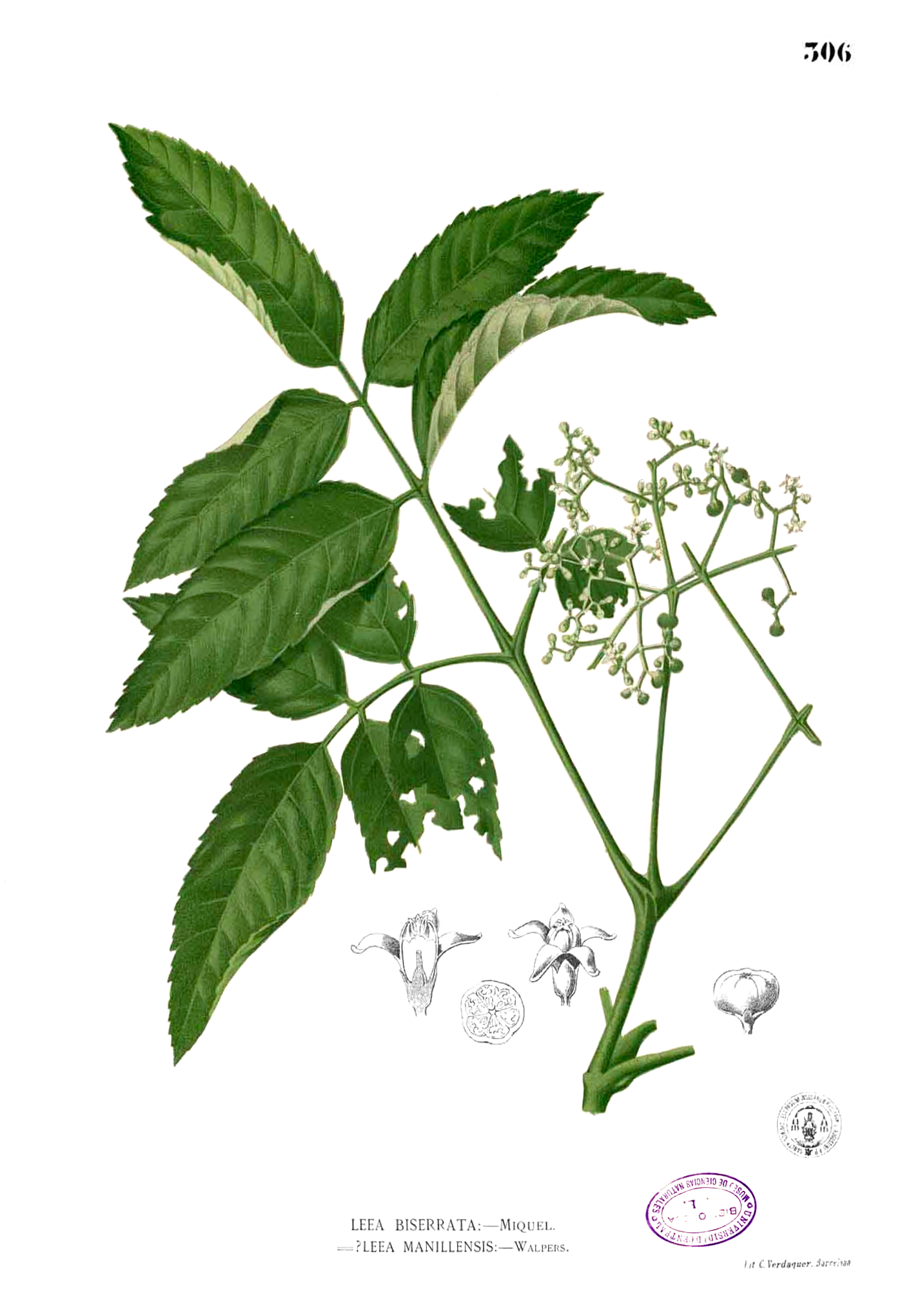 Plate from book